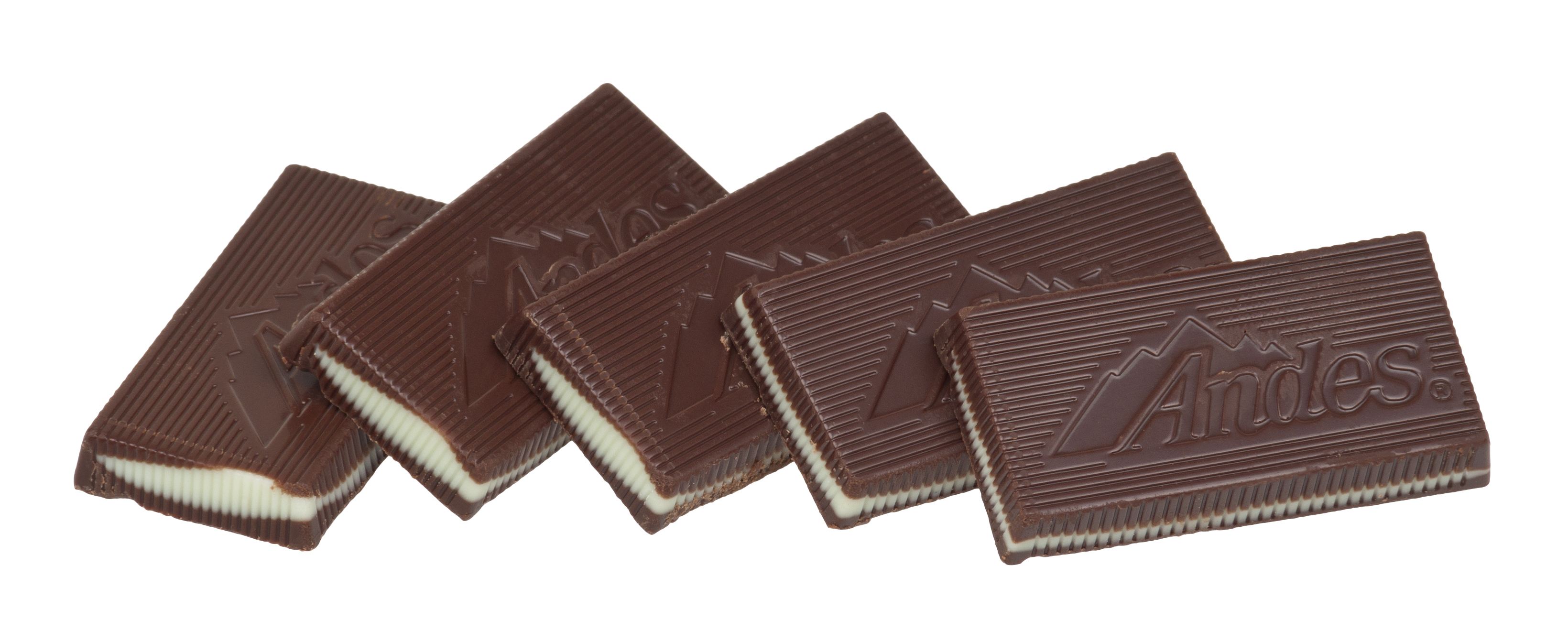 Andes Mints candies. Mint-flavored chocolates.